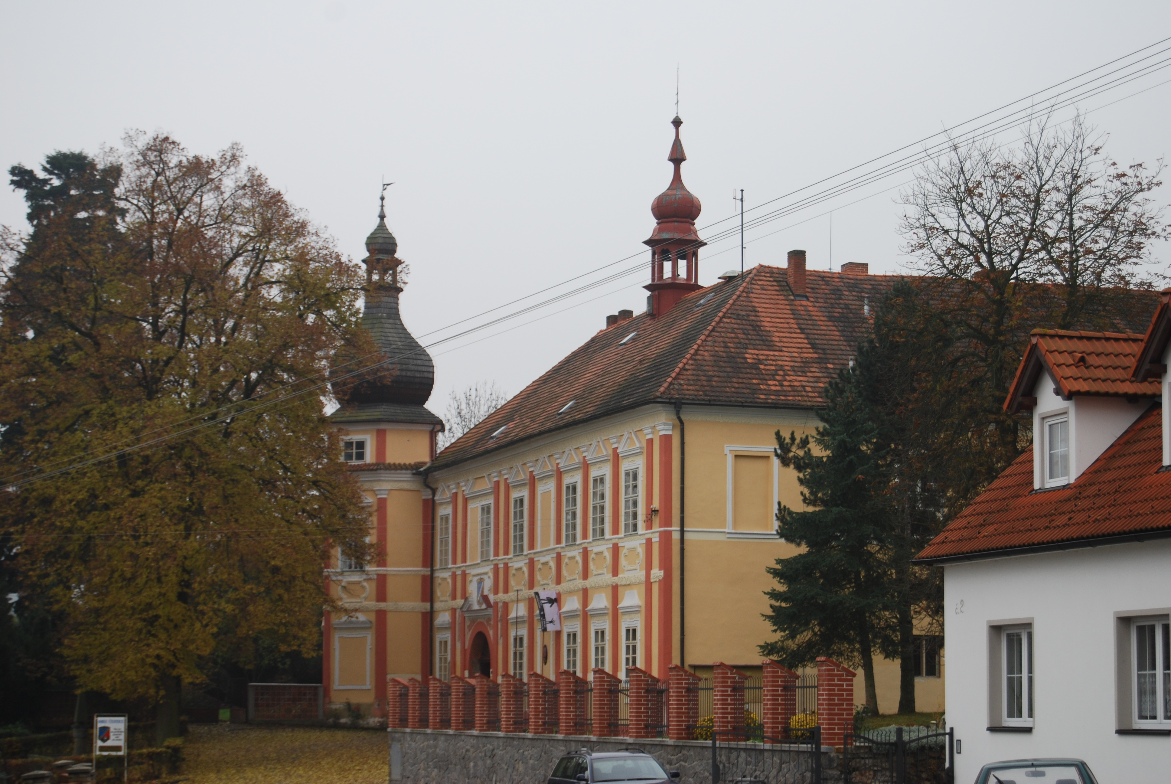 Castle in Čestice, Strakonice District, Czech Republic